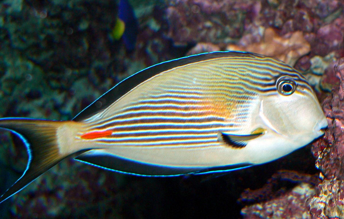 Photo of Acanthurus sohal at Birch Aquarium